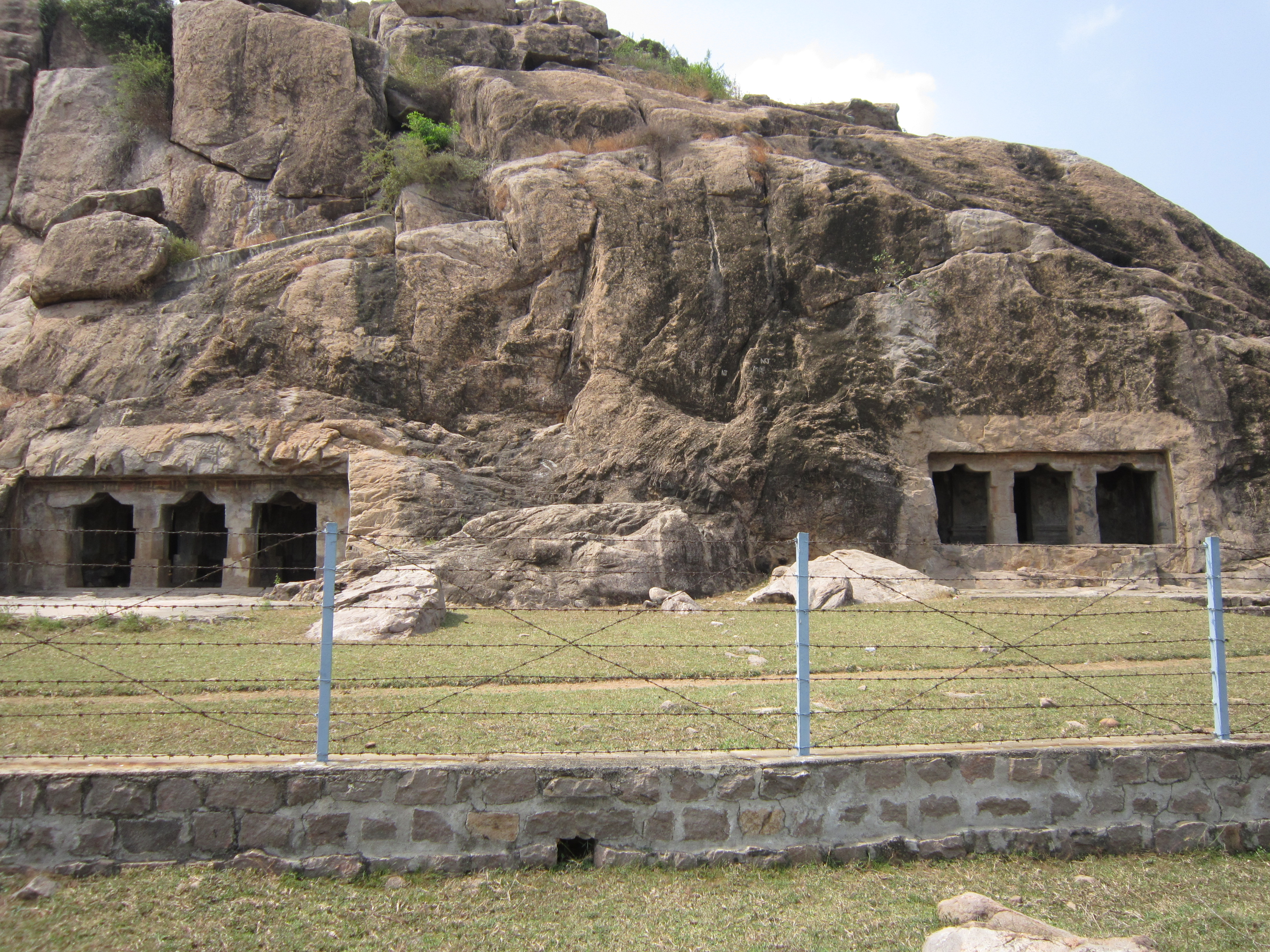 Rock cut caves Mamandur,Thiruvannamalai A view of the complex with two caves